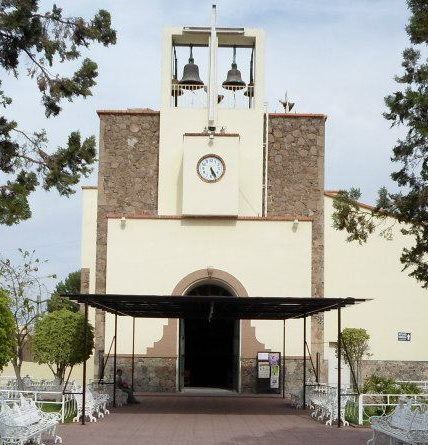 Templo parroquial de San Agustín